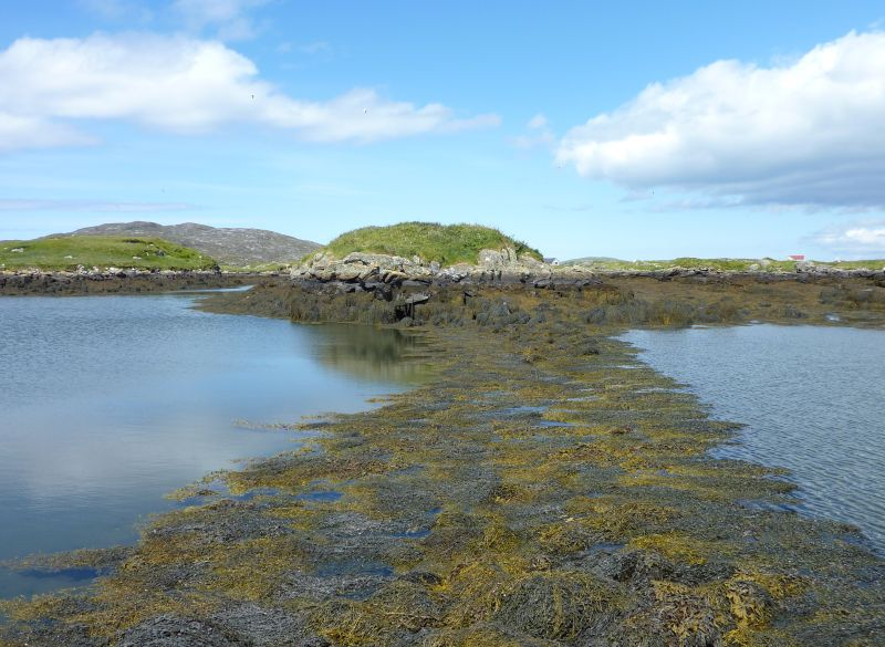 Islet with broch, Bruernish, Barra, Scotland